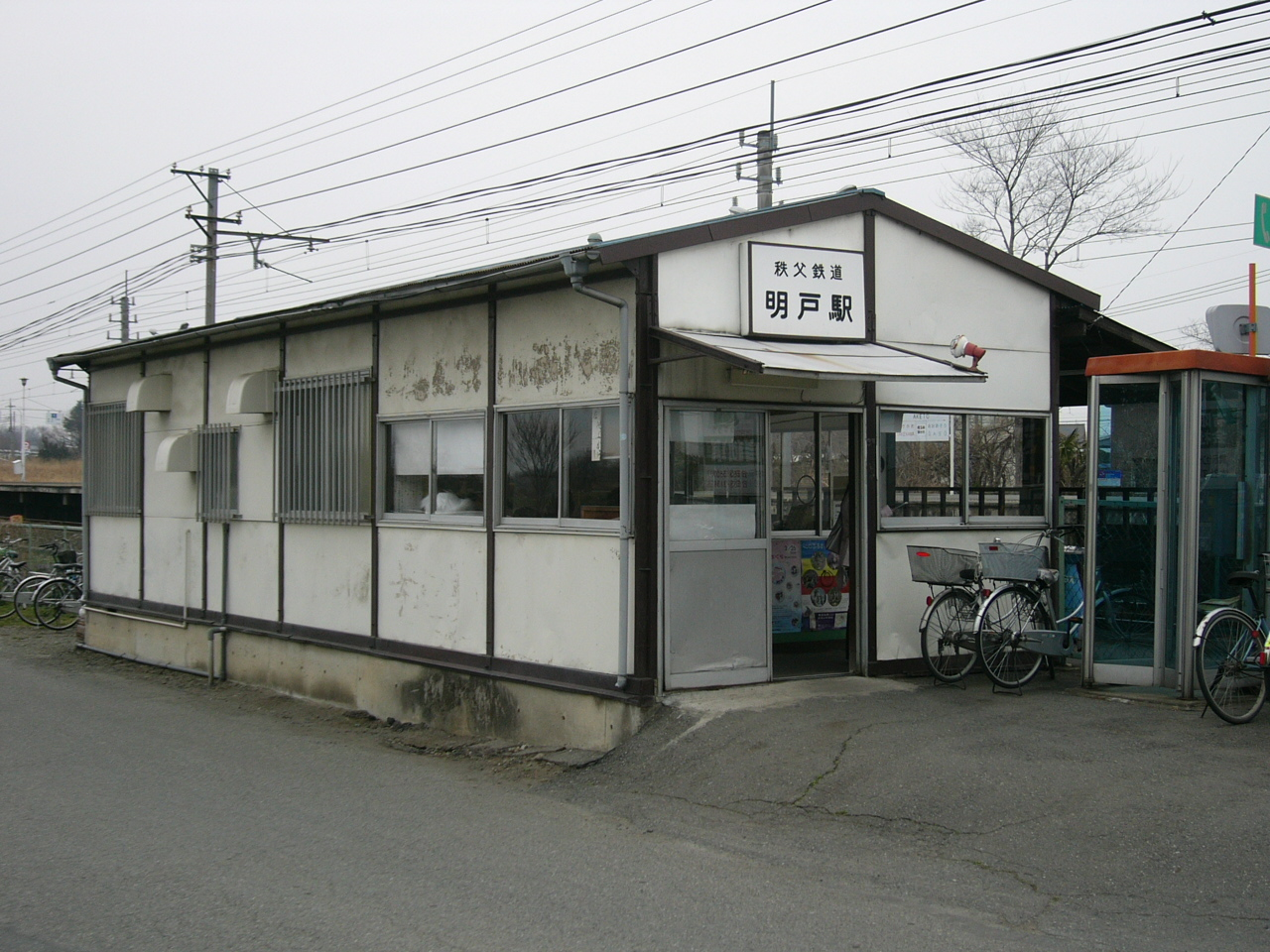 Aketo Station on the Chichibu Main Line in Saitama Prefecture, Japan